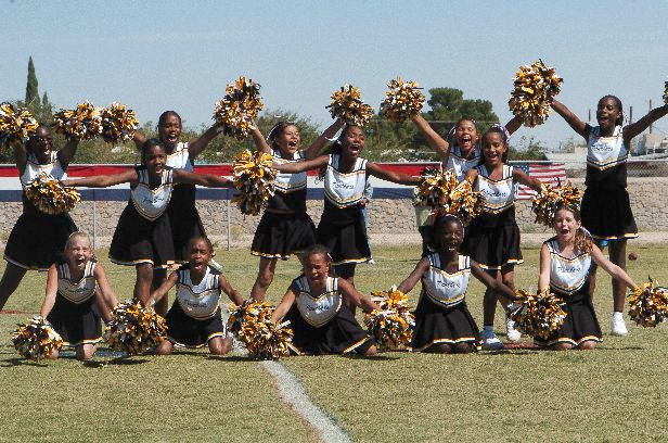 Photo taken at a public event of event participants/athletes (no model release required) by me.